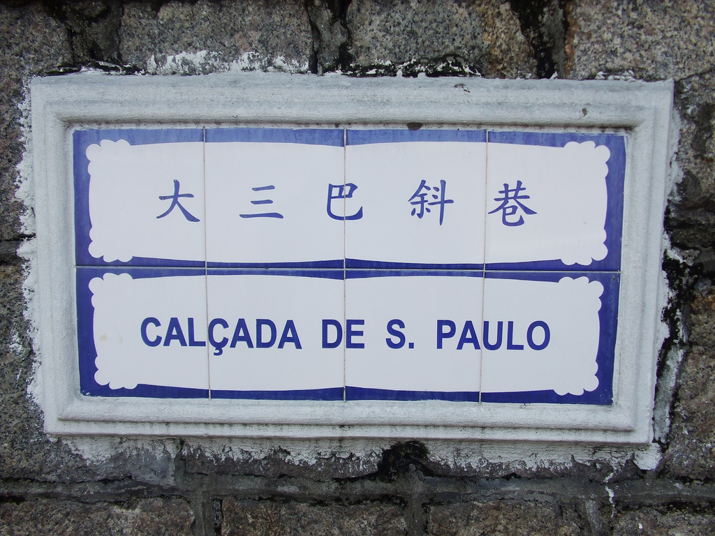 St. Paul Street - In Portuguese it is called Calçada de São Paulo, and in Chinese it is called (大三巴斜巷)